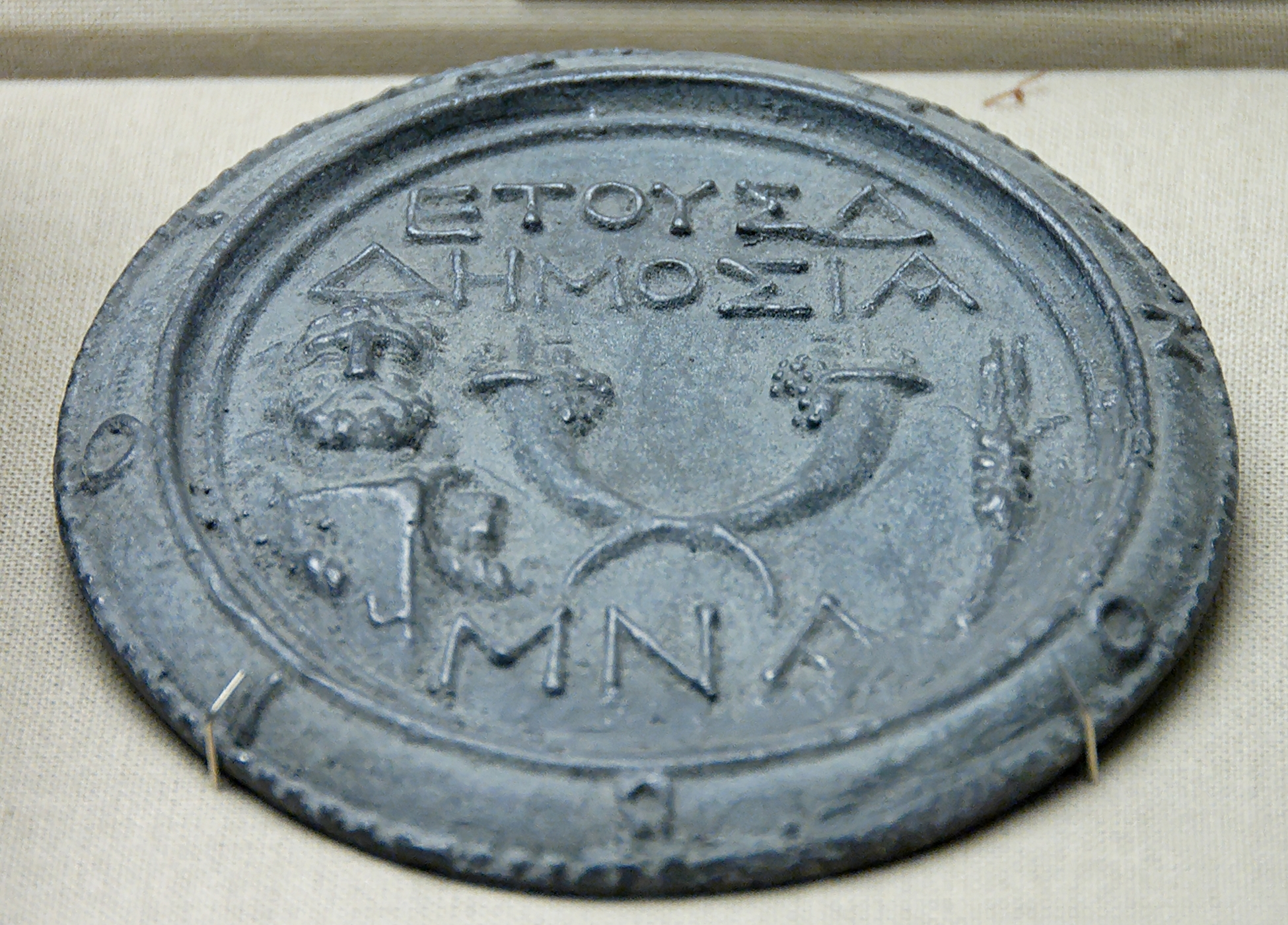 Standard mna (half-stater), weight decorated with cornucopias and an ear of barley, dated to the 4th year of a Hellenistic king and inscribed with a magistrate's name, Zenobios, around the edge. Lead, 2nd or 1st century BC.